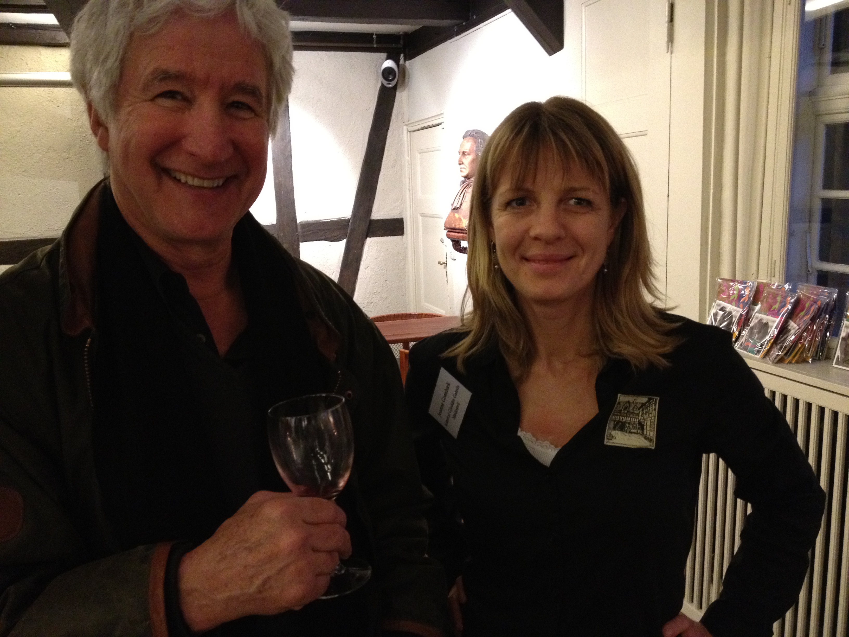 Jeanne and Eddie Skoller at Goldberg's 5th anniversary in Admiral Gjeddes Gaard.